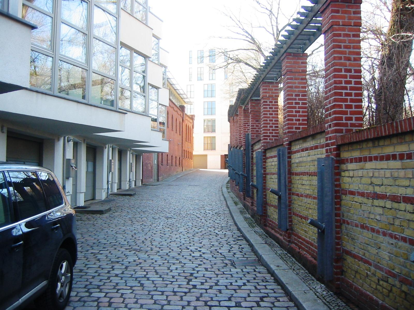 Sixtusgarten in Berlin-Kreuzberg (Germany)